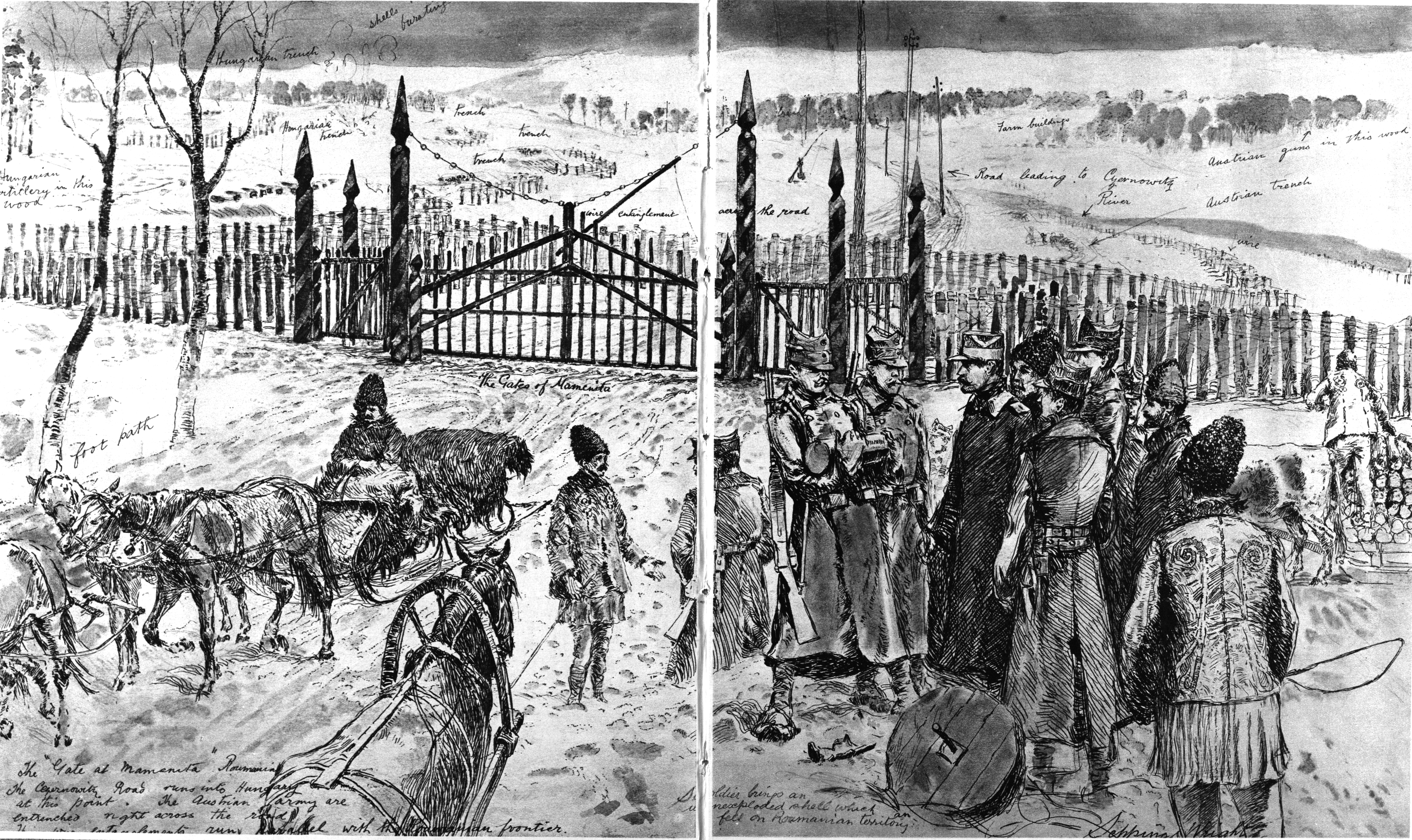 Inspecting an unexploded shell that had dropped in Roumanian territory - Roumanian officers on their northern frontier adjoining the Bukovina